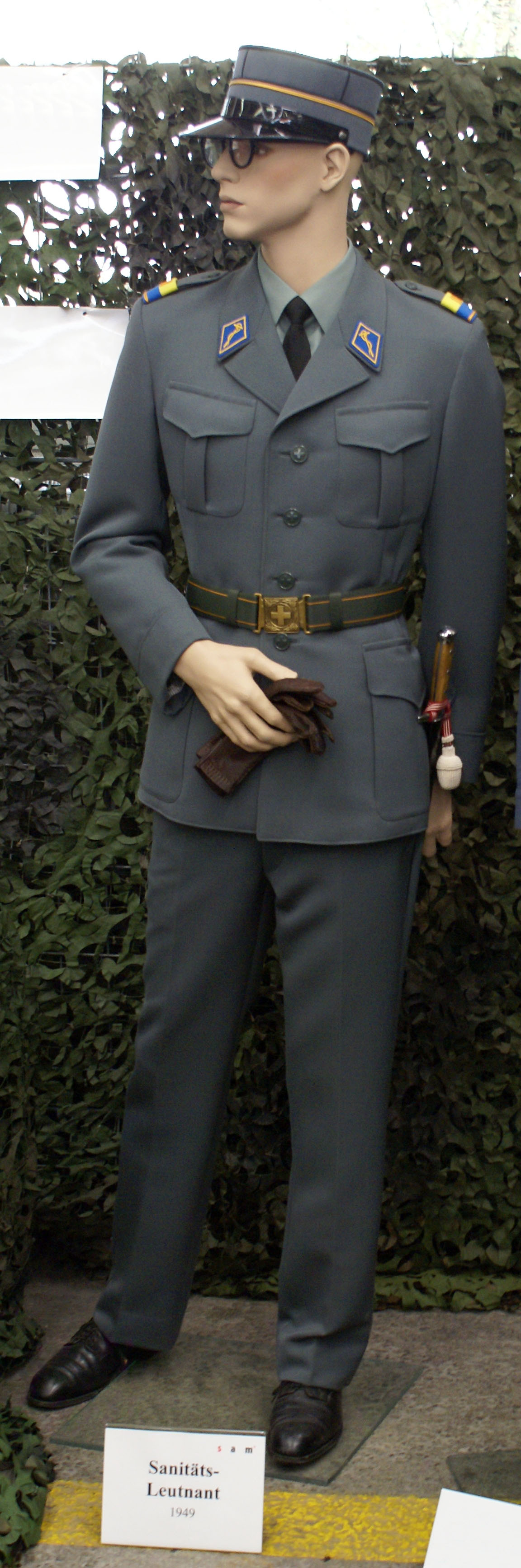 Swiss Army. Officers' uniform of 1949, second lieutenant of the medical corps. Swiss Army Museum.